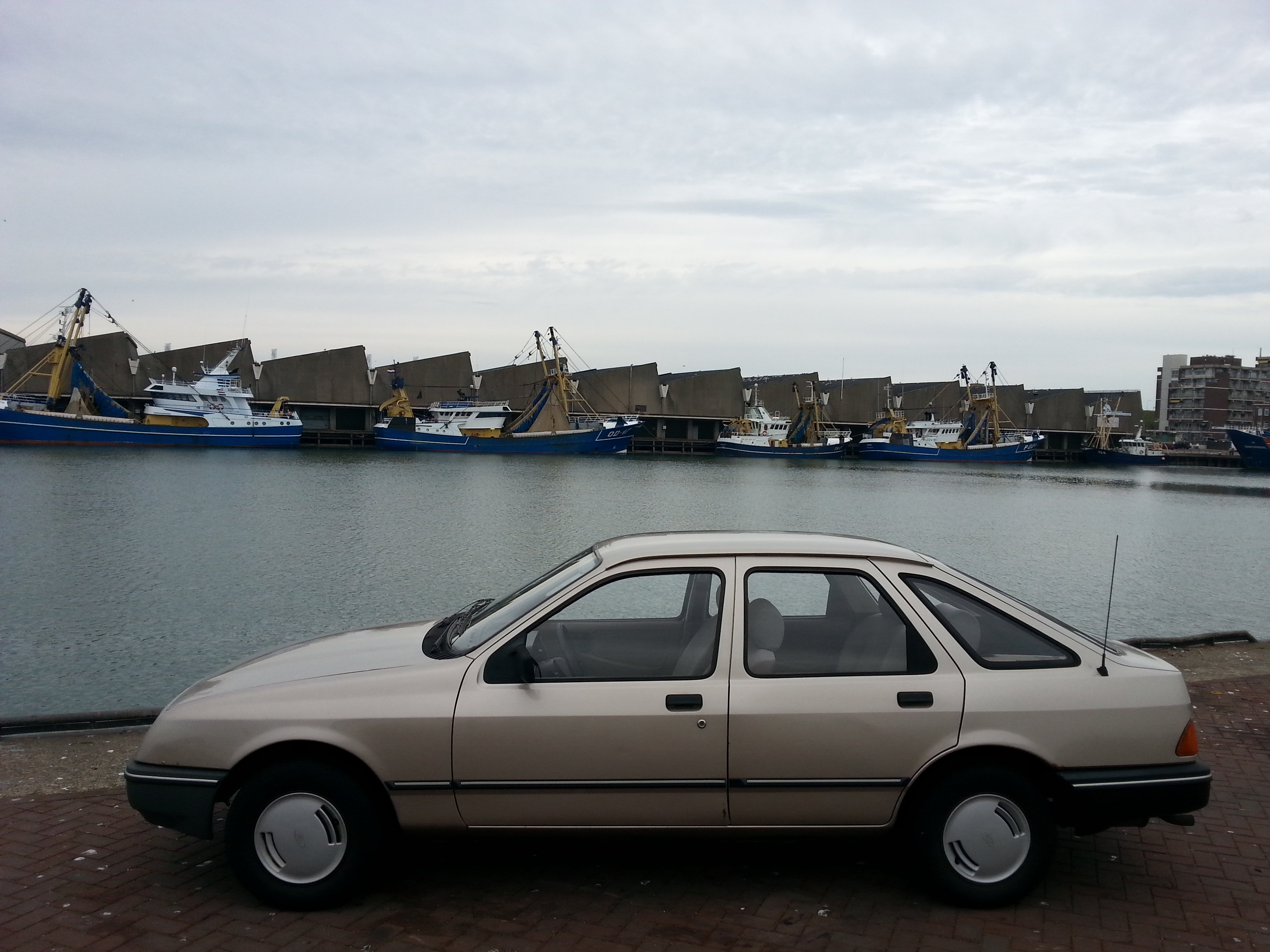 This is an early 1983 Ford Sierra L-model.